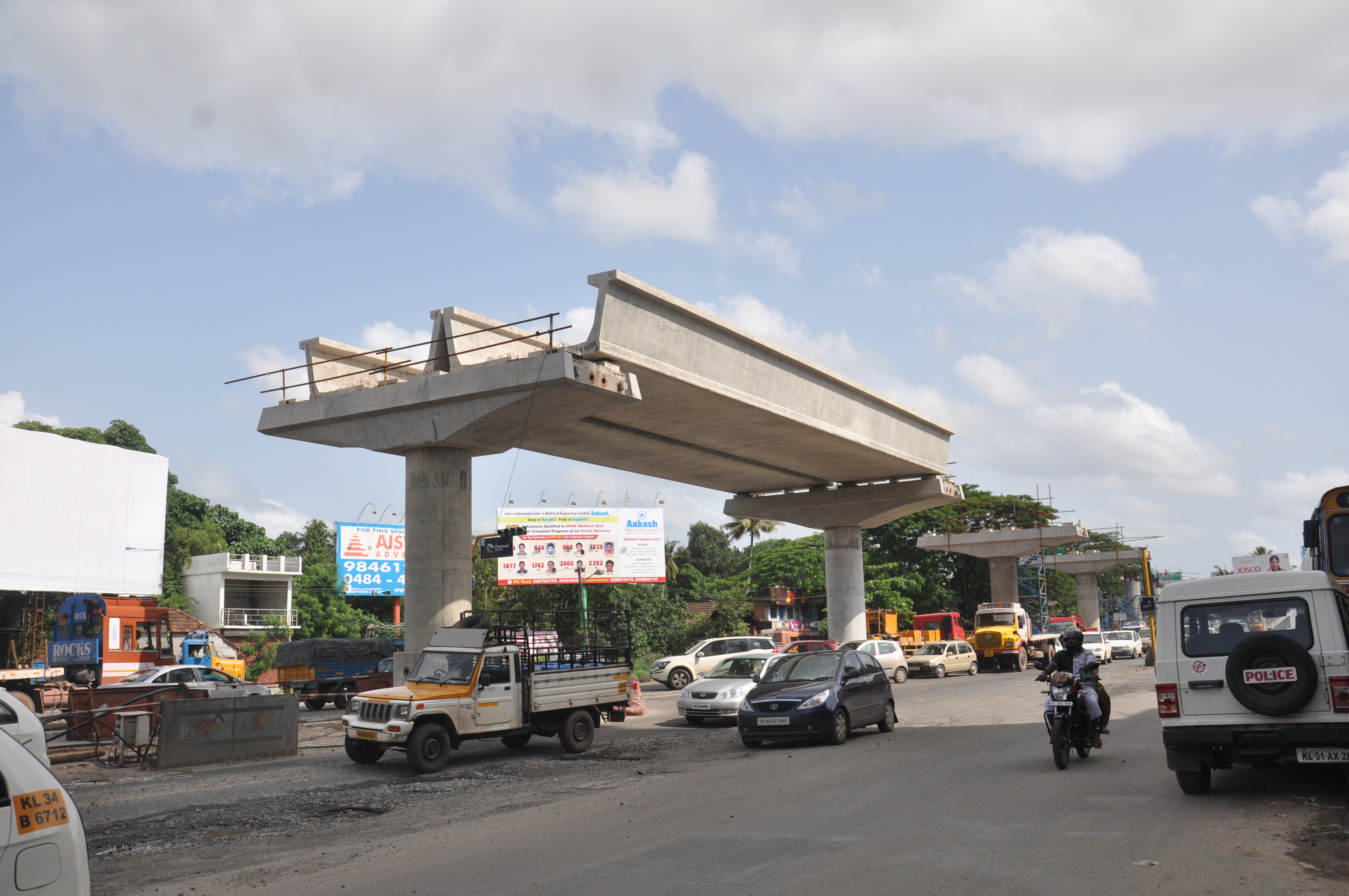 This is the picture of Kochi Metro's U girders at Kalamassery, Ernakulam